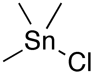 chemical structure of trimethyltin chloride